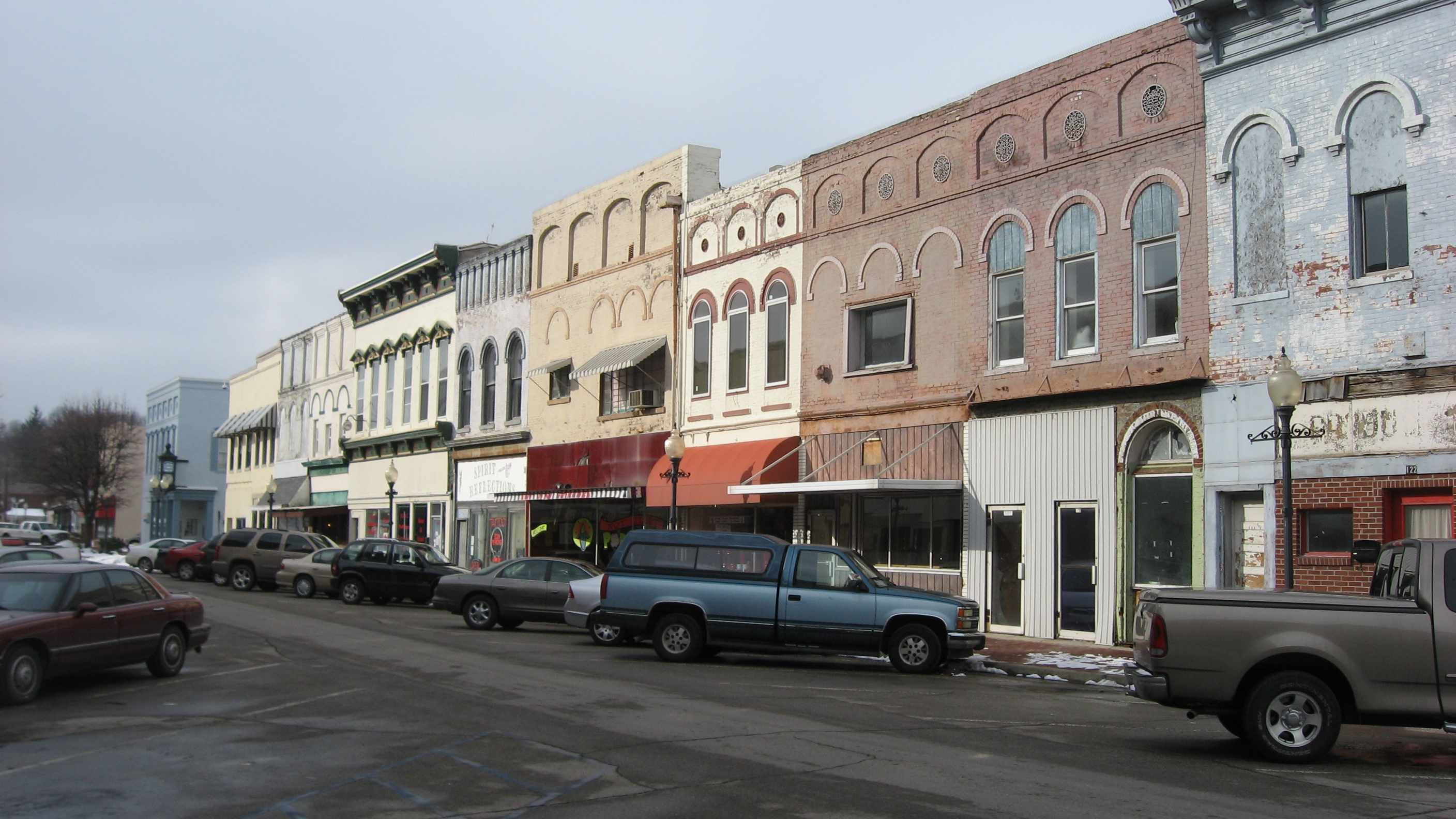 Buildings on the northern side of the first block of E. Main Cross Street in Edinburgh, Indiana, United States. This block is part of the Edinburgh Commercial Historic District, a historic district that is listed on the National Register of Historic Places.